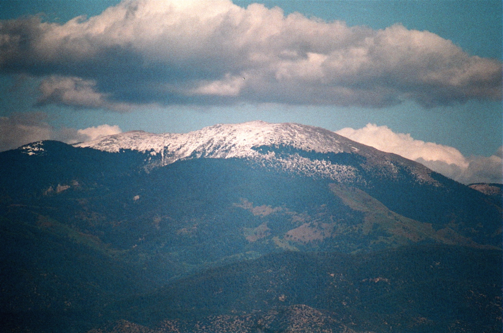 Santa Fe Baldy in mid September 2006 after an early snow. This photo was taken with a Canon A-1 film camera with a 500mm lens from the White Rock, NM overlook at a distance of over 20 miles. The image was tweaked with iPhoto.